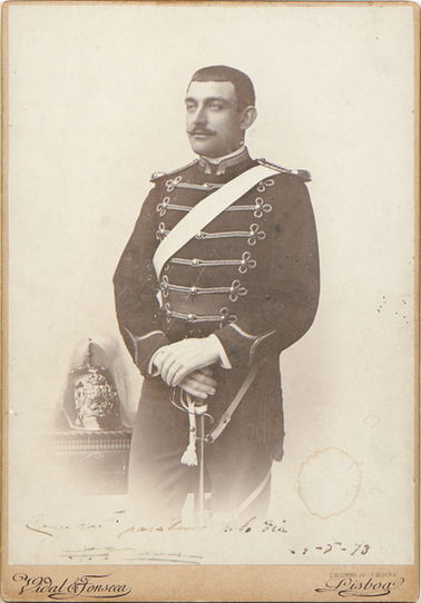 Francisco Figueira Freire da Câmara, officer of King Carlos I of Portugal, who shot Manuel Buíça and Alfredo Costa during the Lisbon Regicide, in 1908